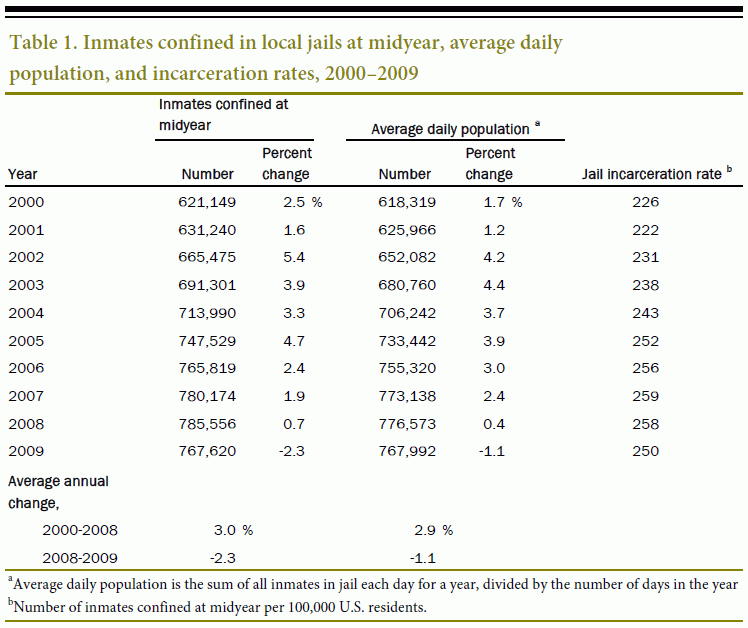 Inmates confined in local jails in the USA at midyear, average daily population and incarceration rates, 2000-2009.